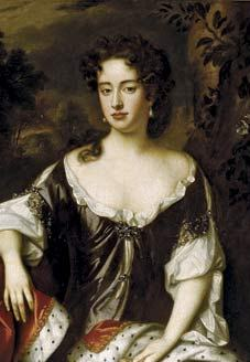 Anne, later Queen of England &c. At the time of the sitting she was styled Her Royal Highness Princess of Denmark and Norway by virtue of her marriage. She became Queen of England, Scotland and Ireland in 1700, styled Queen of Great Britain and Ireland from 1707